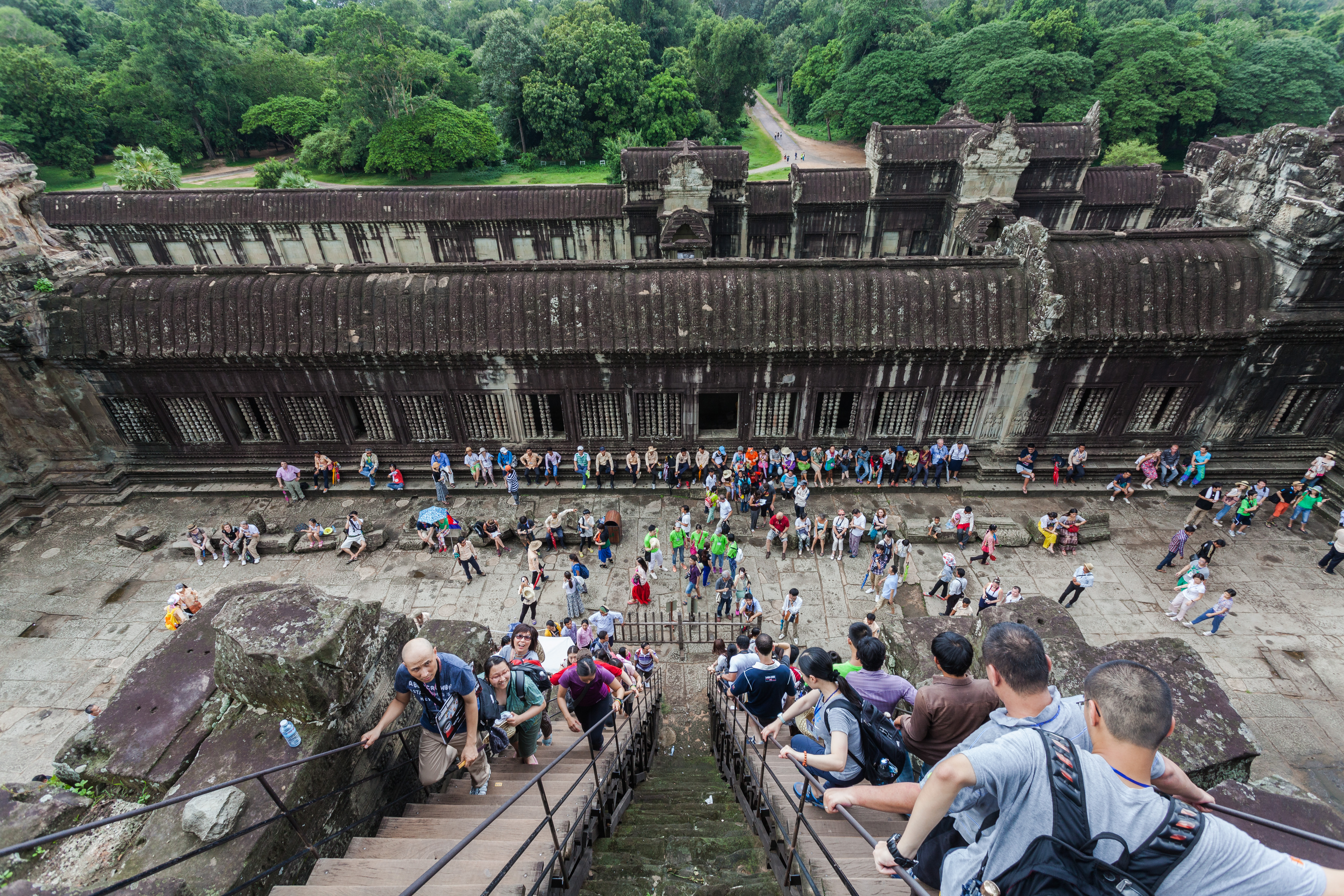 Angkor Wat, Cambodia